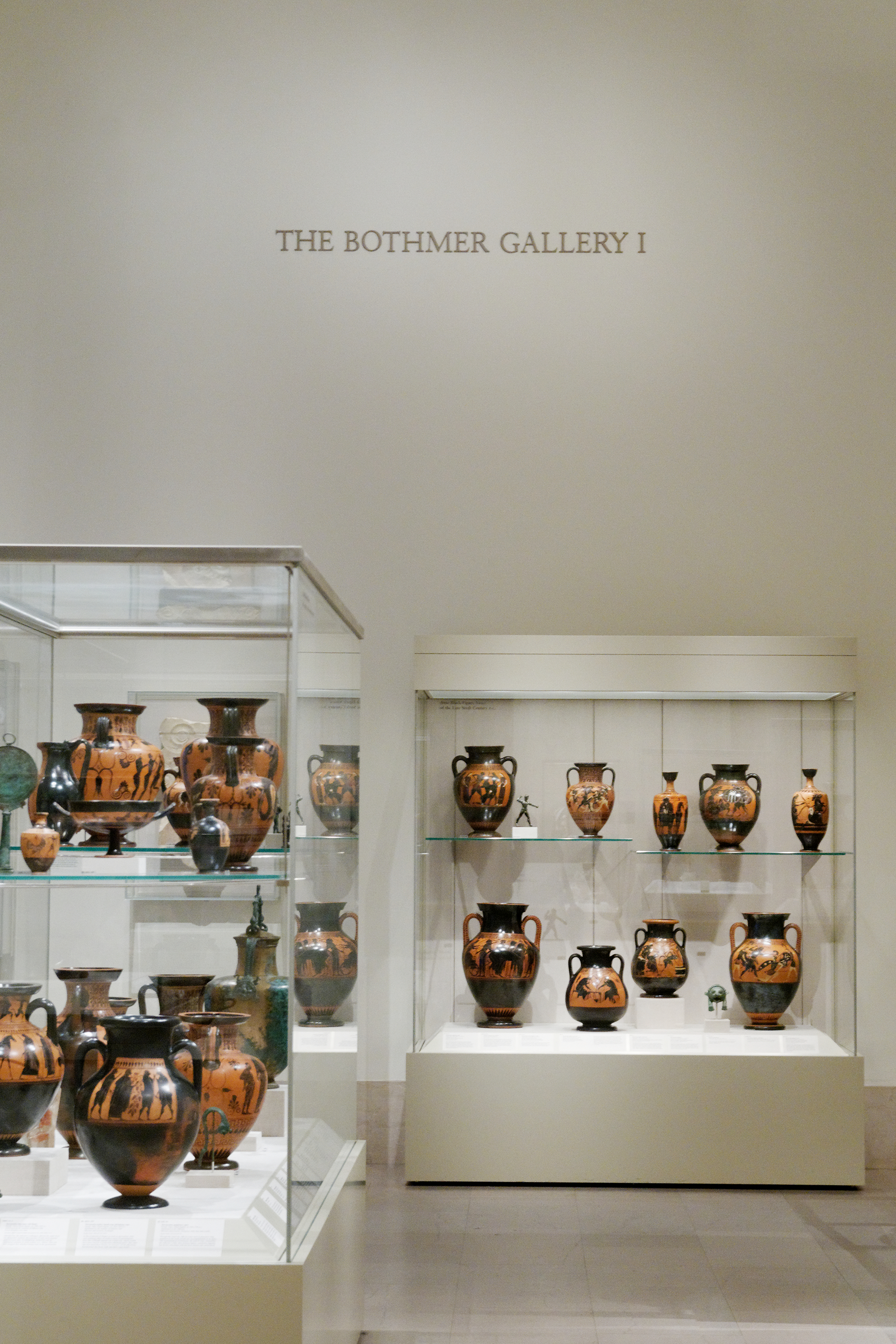 The Bothmer Gallery at the Metropolitan Museum of Art, one of the rooms dedicated to former curator Dietrich von Bothmer.